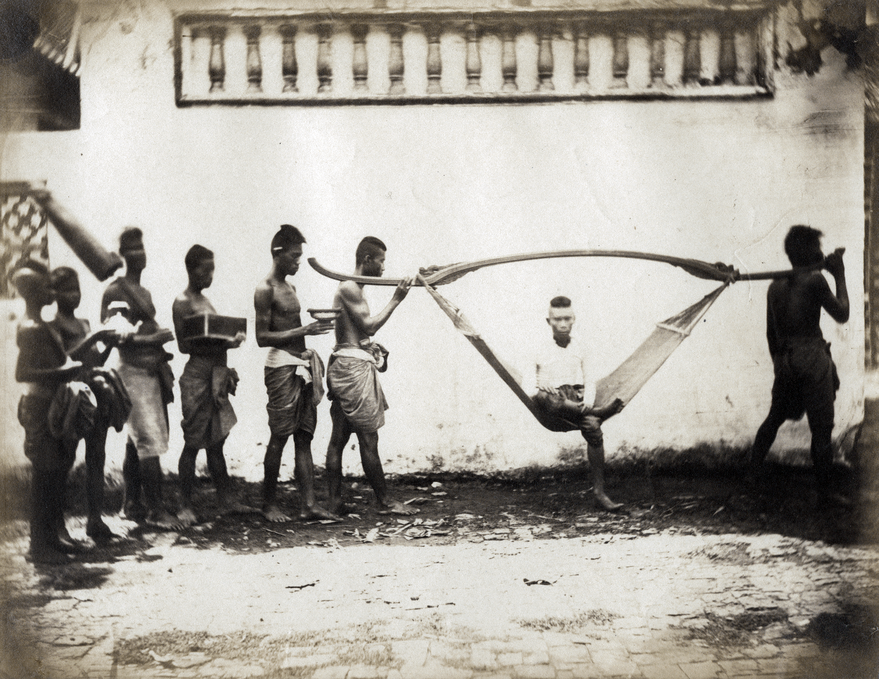 A Siamese noble on hammock being conveyed to a visit